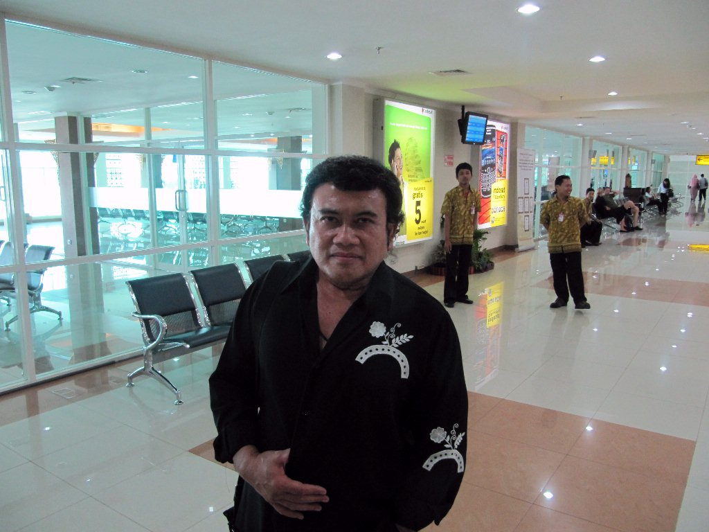 A picture of Rhoma Irama